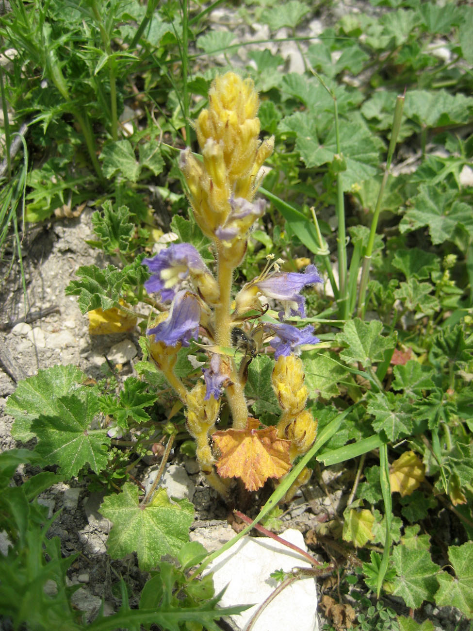 Orobanche ramosa. Silifke, Mersin province, Turkey, growing near old walls of Silifke castle.